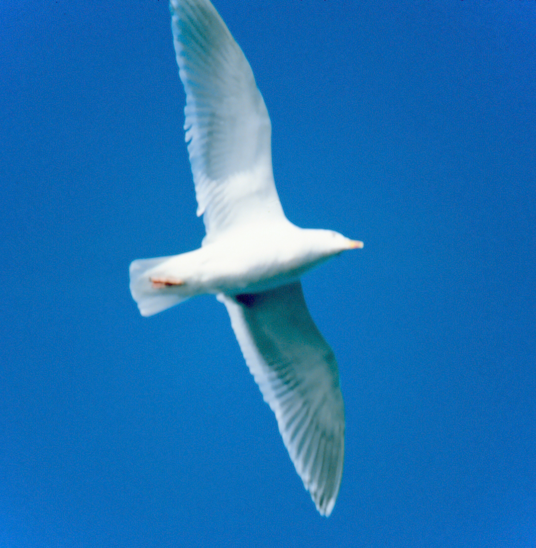 Glaucous Gull Larus hyperboreus, adult in flight